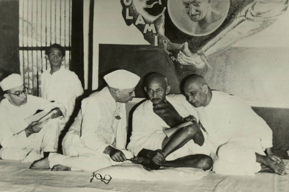 Nehru, Gandhi and Sardar Vallabhbhai Patel, All India Congress Committee meeting, Bombay, 1946.